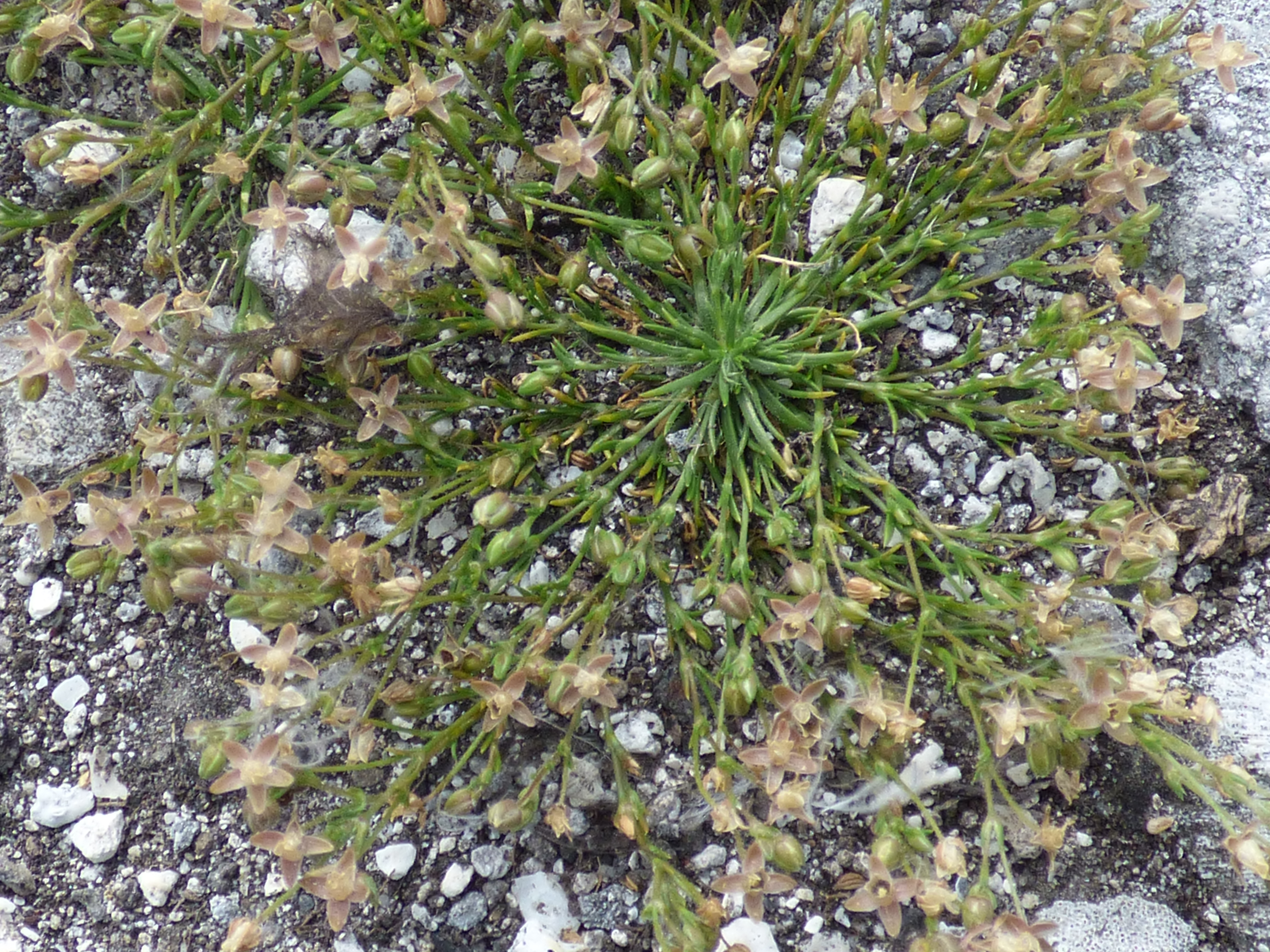 Sagina procumbens (Procumbent pearlwort) Flowering habit at Tarmac Near Fire Station Sand Island, Midway Atoll, Hawaii. March 30, 2015 #150330-0516 Image Use Policy